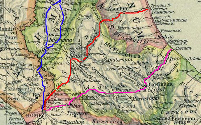 Ancient roman way system linking the city with the Adriatic coast. From the bottom: the Tiburtina way (violet), the Salaria Way (red).